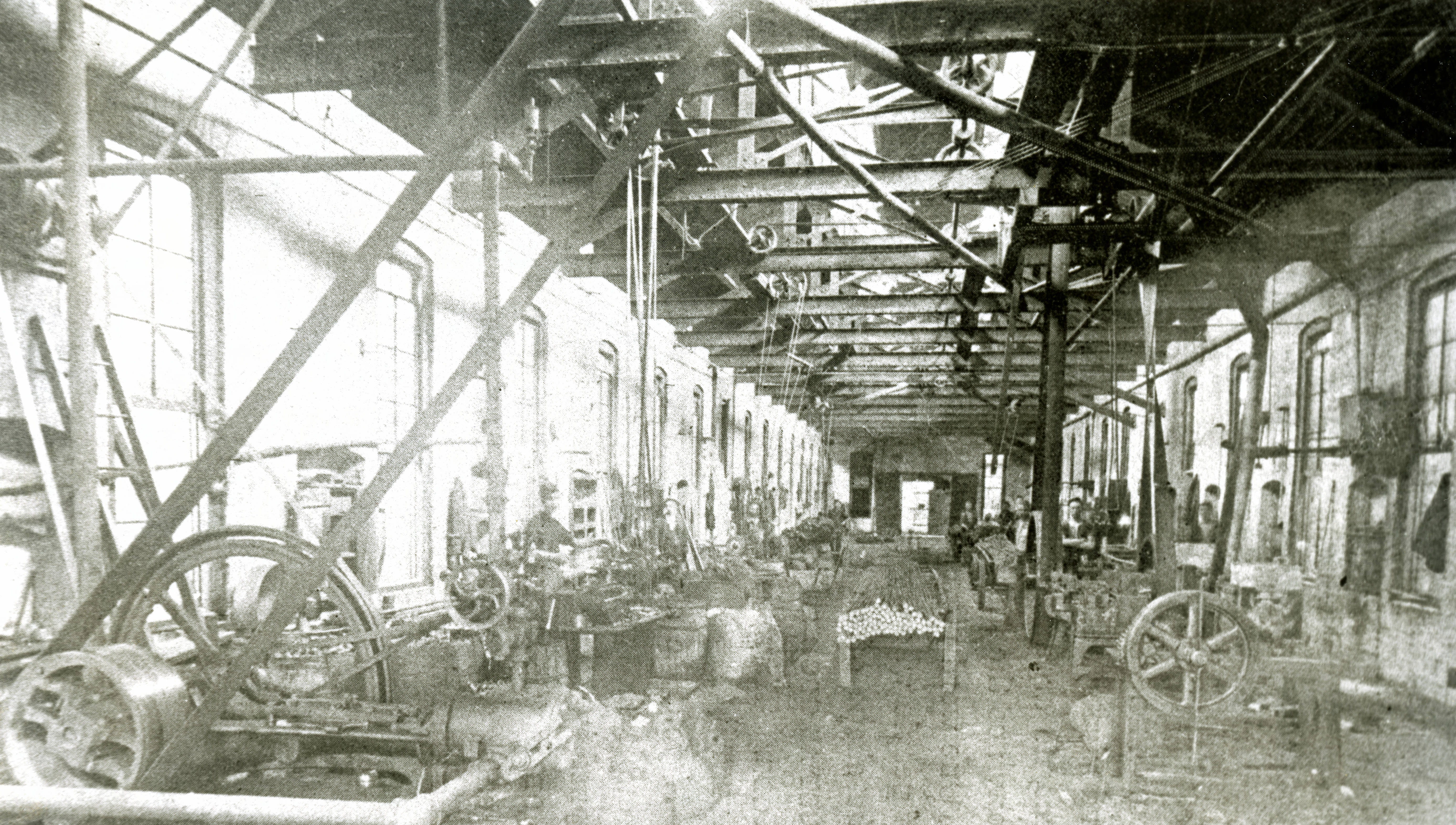 A copy of a black and white photograph of the interior of the Acme Sucker Rod Factory in Toledo, Ohio entitled ""where the Acme sucker rods are made"" The photo was taken from page 5 of a pamphlet done by the company entitled ""The Fine Art of Producing Petroleum"" published around 1900. The Acme Sucker Rod Company was founded by Toledo Mayor Samuel M.""Golden Rule"" Jones.